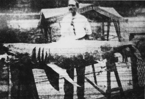 Michael Schleisser and a great white shark captured in Raritan Bay, suspected to be the culprit of the Jersey Shore shark attacks of 1916.